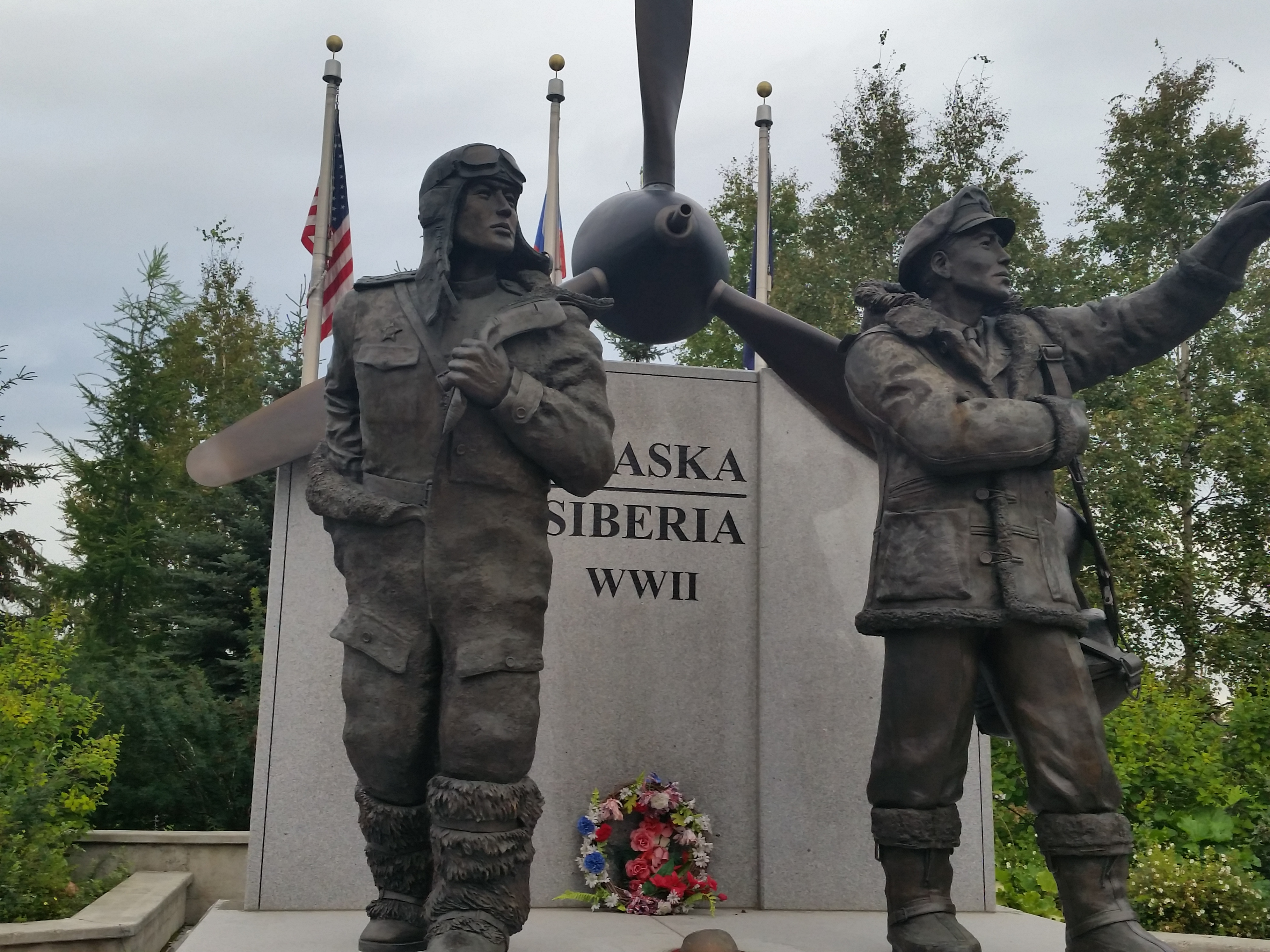 Commemorates the partnership between the US and the Soviet Union during World War II